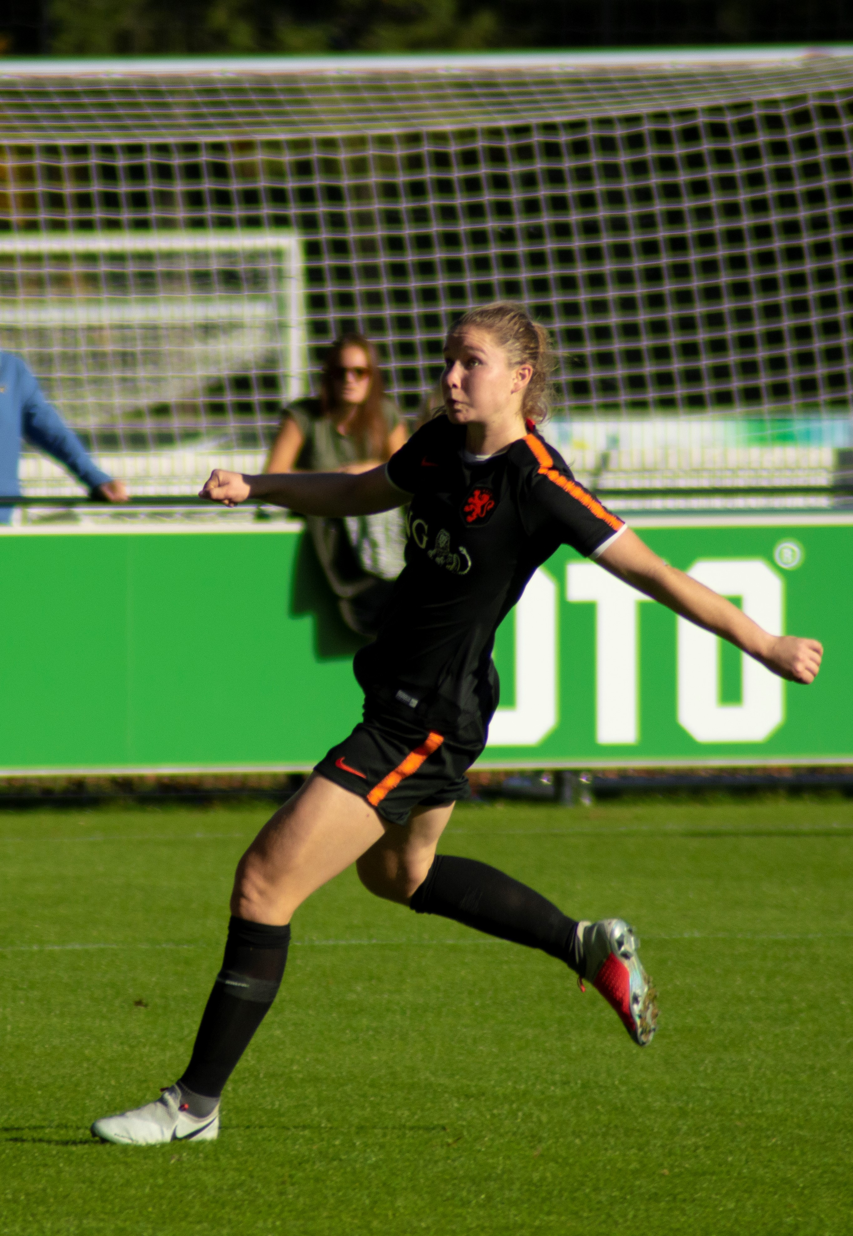 Sisca Folkertsma training with the Netherlands on November 6, 2018.